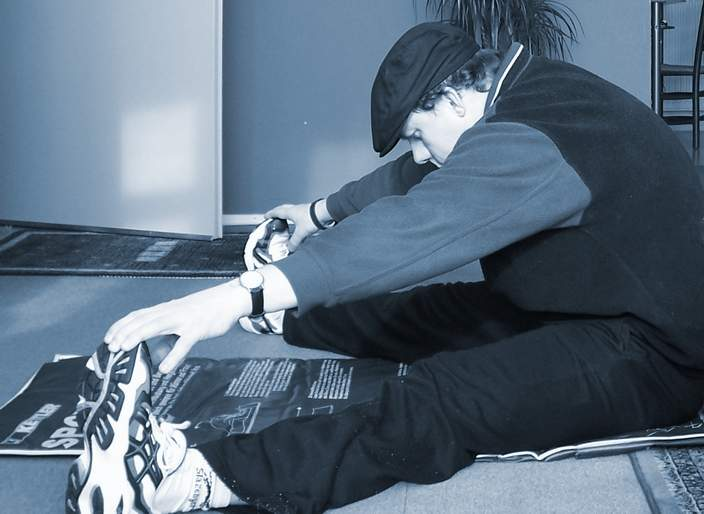 Cooling-down, man does a wide seated hamstring stretch at home.